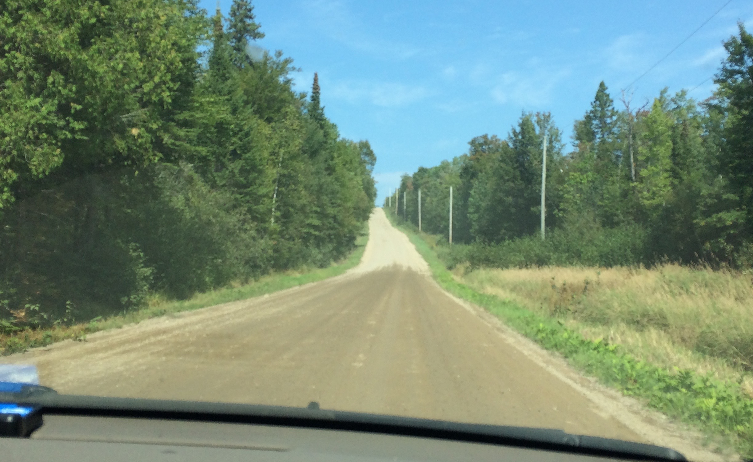 Calcium chloride was sprayed on this road to prevent weathering, giving it a wet appearance even in dry weather. The section of the road running up the hill was not treated.